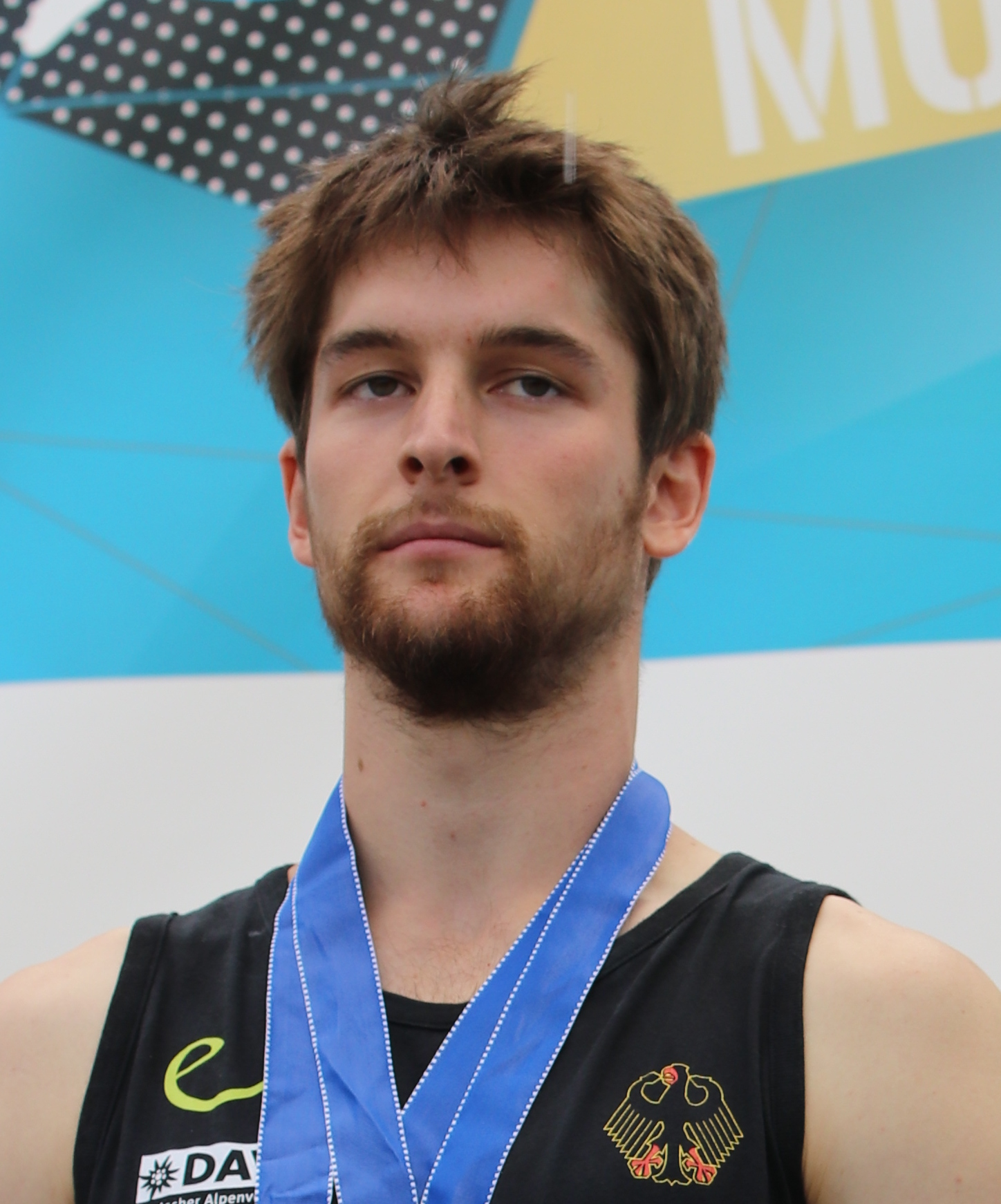 Jan Hojer, GER, at the Boulder Worldcup 2017 in Munich, Germany